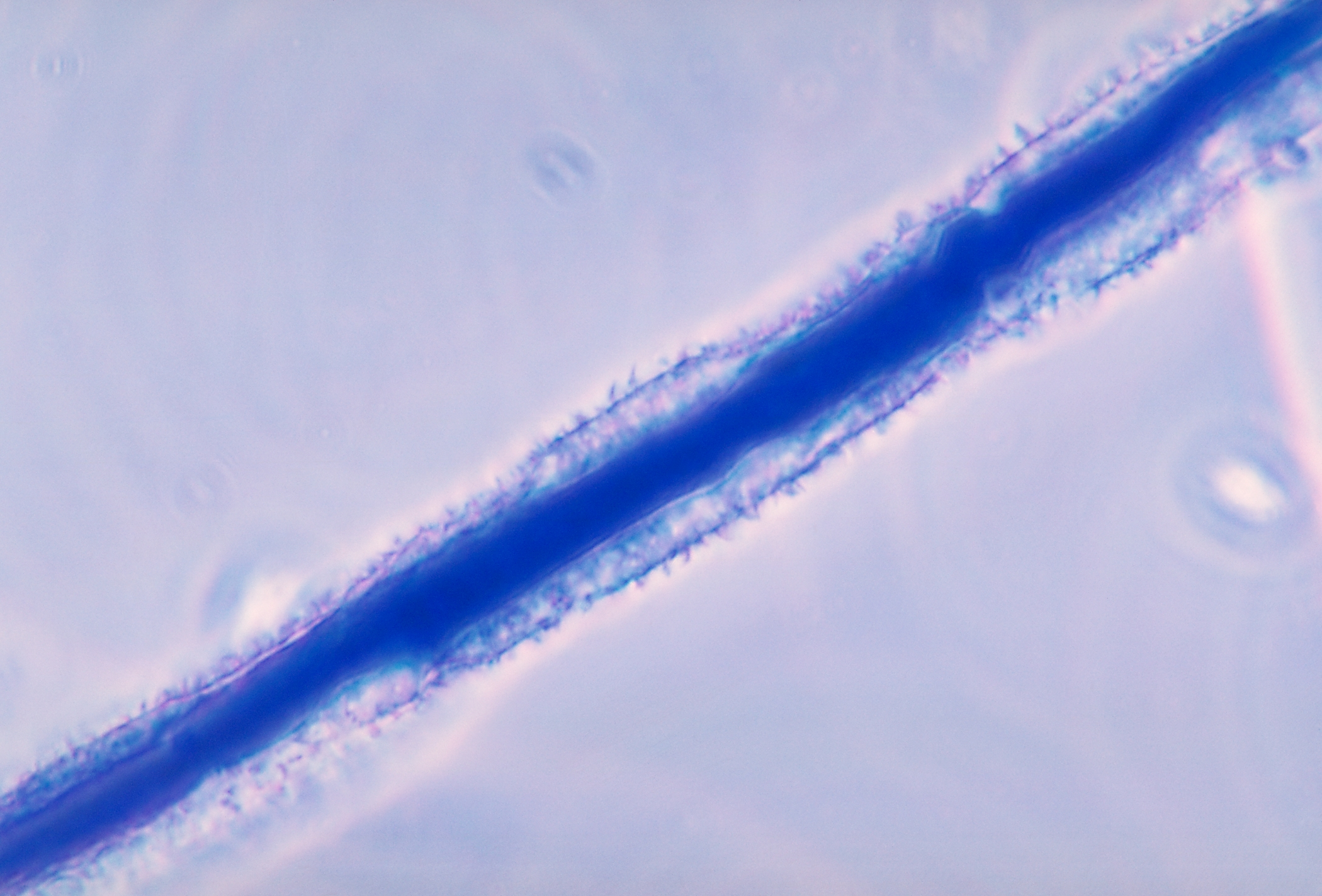 The appearance of a rough conidiophore of the fungus Aspergillus flavus. Obtained from the CDC Public Health Image Library. Image credit: CDC/Dr. Libero Ajello (PHIL #4299), 1963.